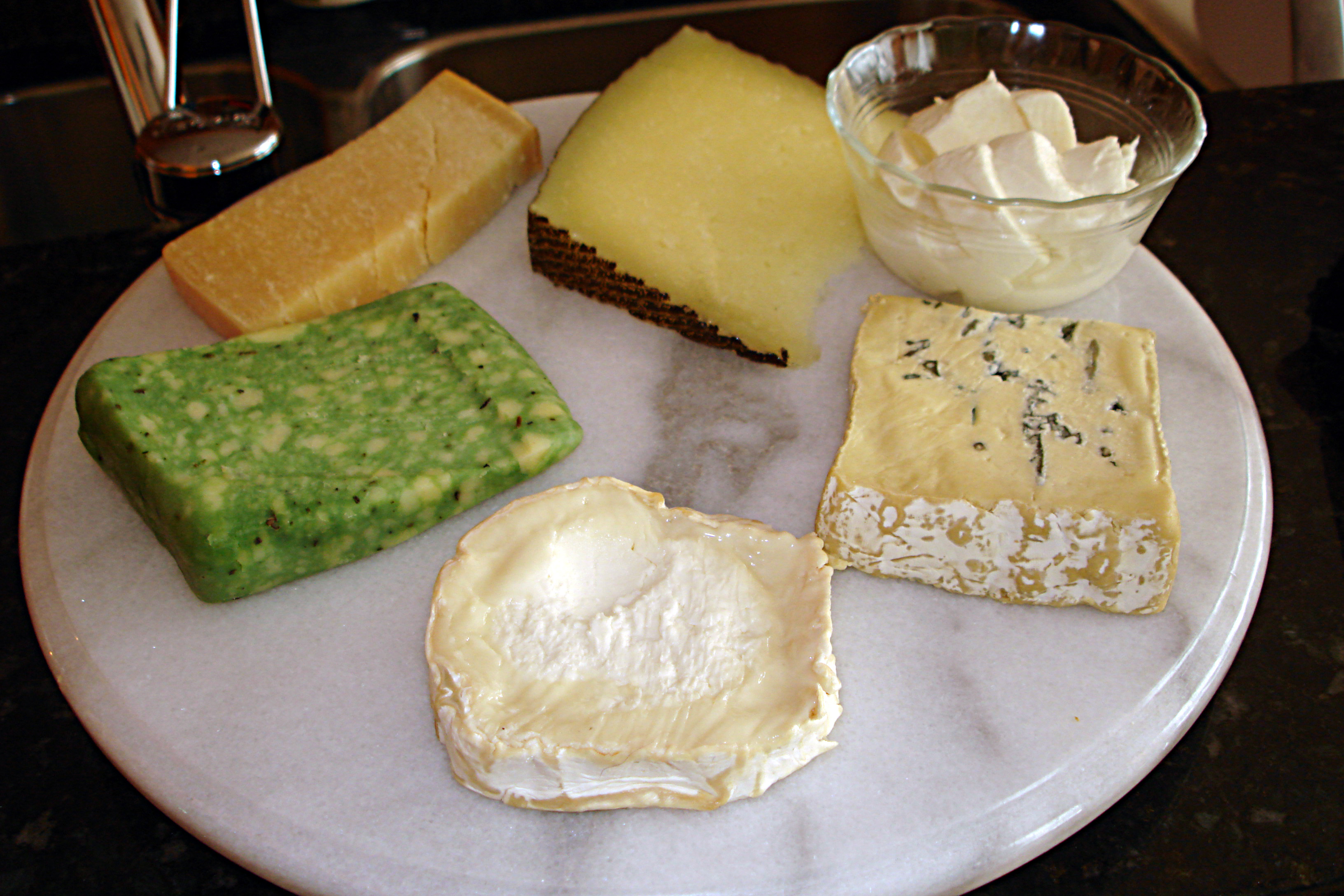 Clockwise: 12 o' clock Manchego 1 fresh Bufalo mozzarella 3 German Brie. 6 Gourim or something like that.. 9 Sage 10 Pecorino Romano